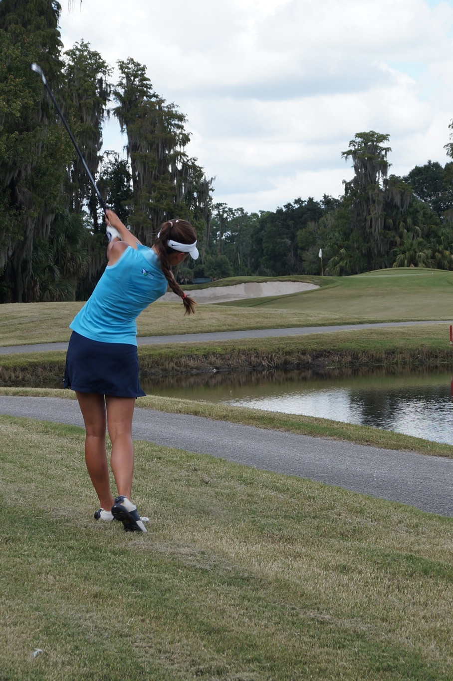 A Saddlebrook Golf Academy athlete playing one of Saddlebrook Resort's two championship courses.